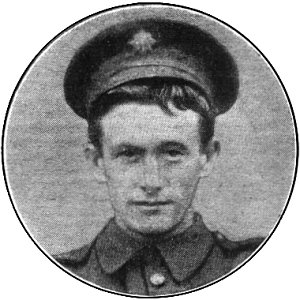 Portrait of Irish-Canadian First World War Victoria Cross recipient Michael O'Leary (1890 – 1961).